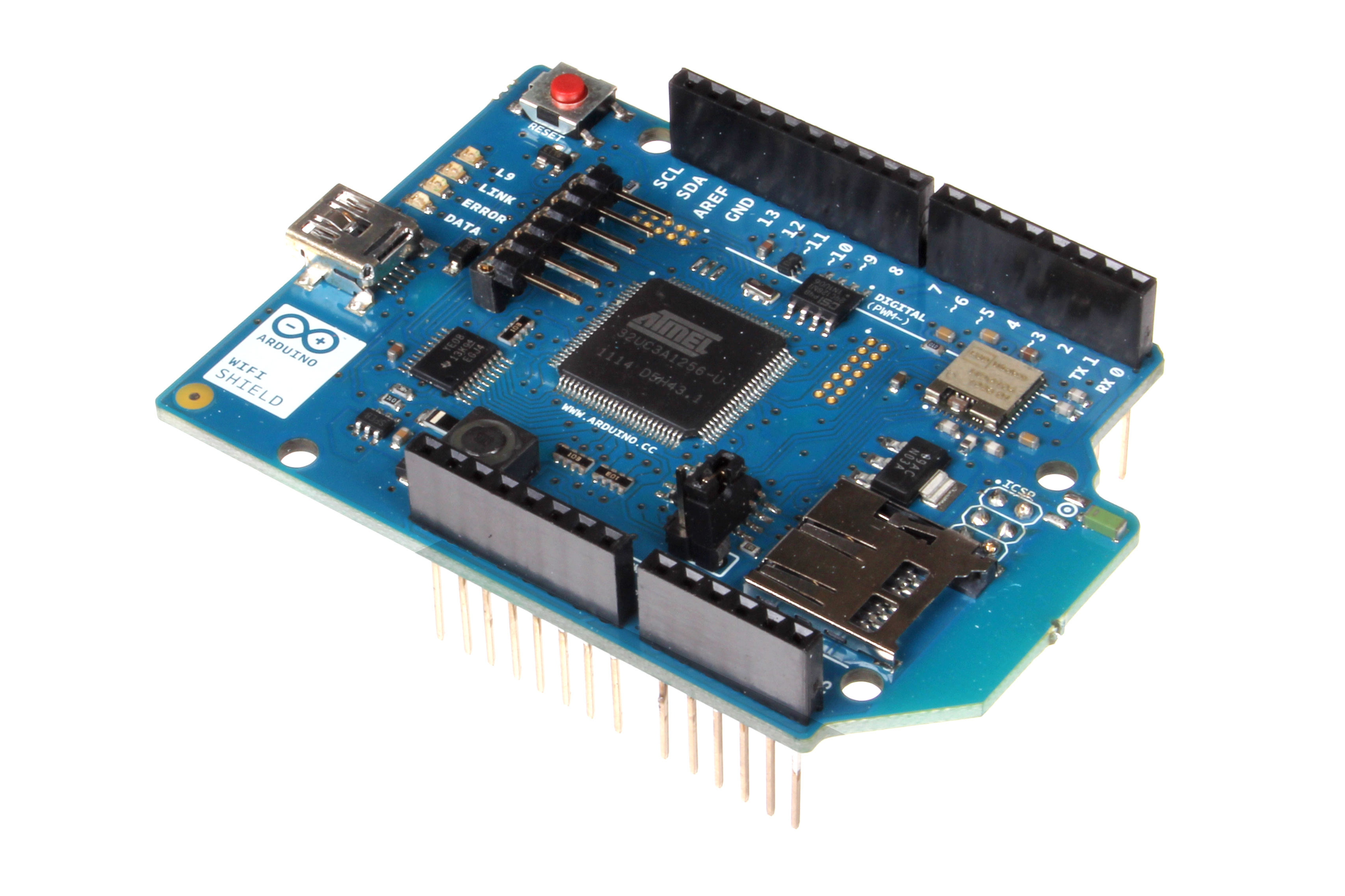 WiFi Shield for Arduino.